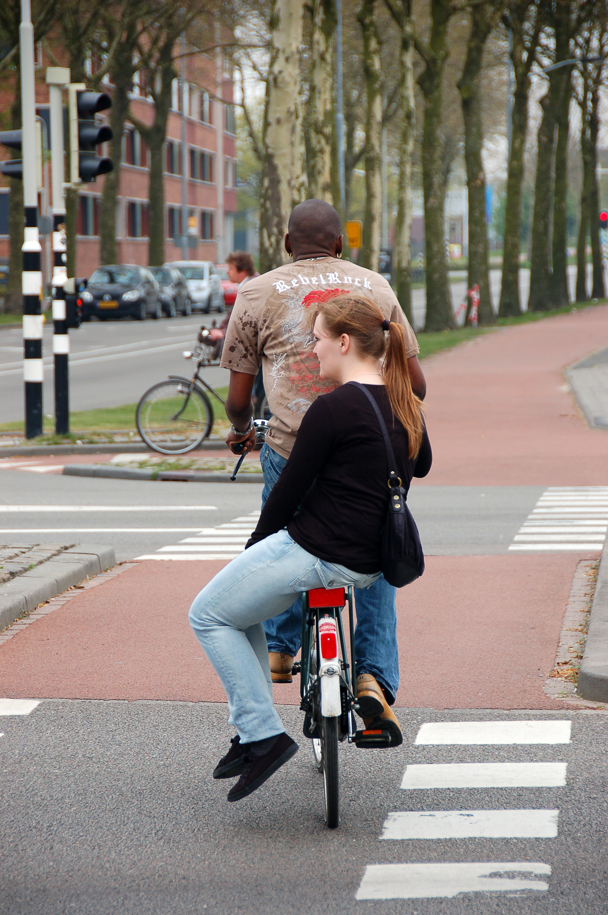 cyclist in Breda, Netherlands